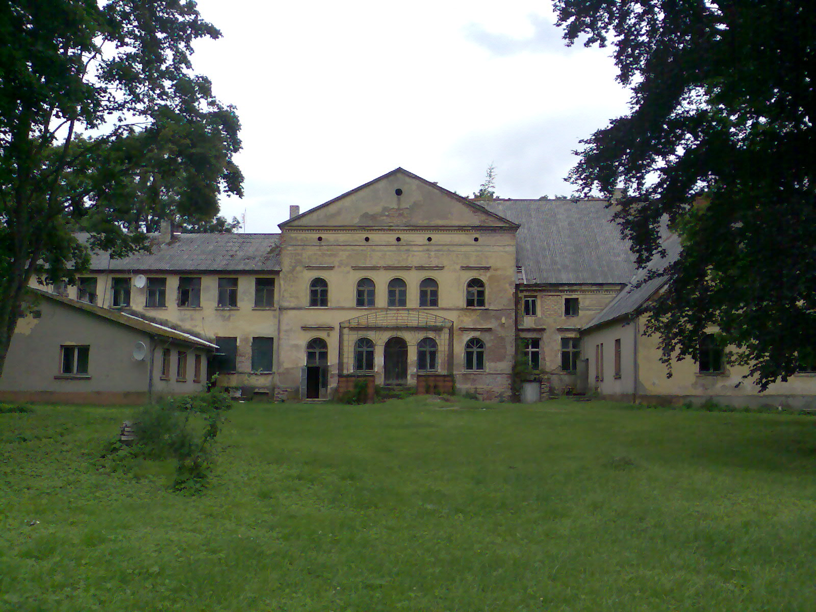 Pussenecken manor house